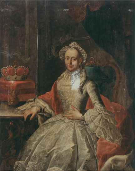 Portrait of Princess Sophie Antoinette of Brunswick-Wolfenbüttel (1724-1802)